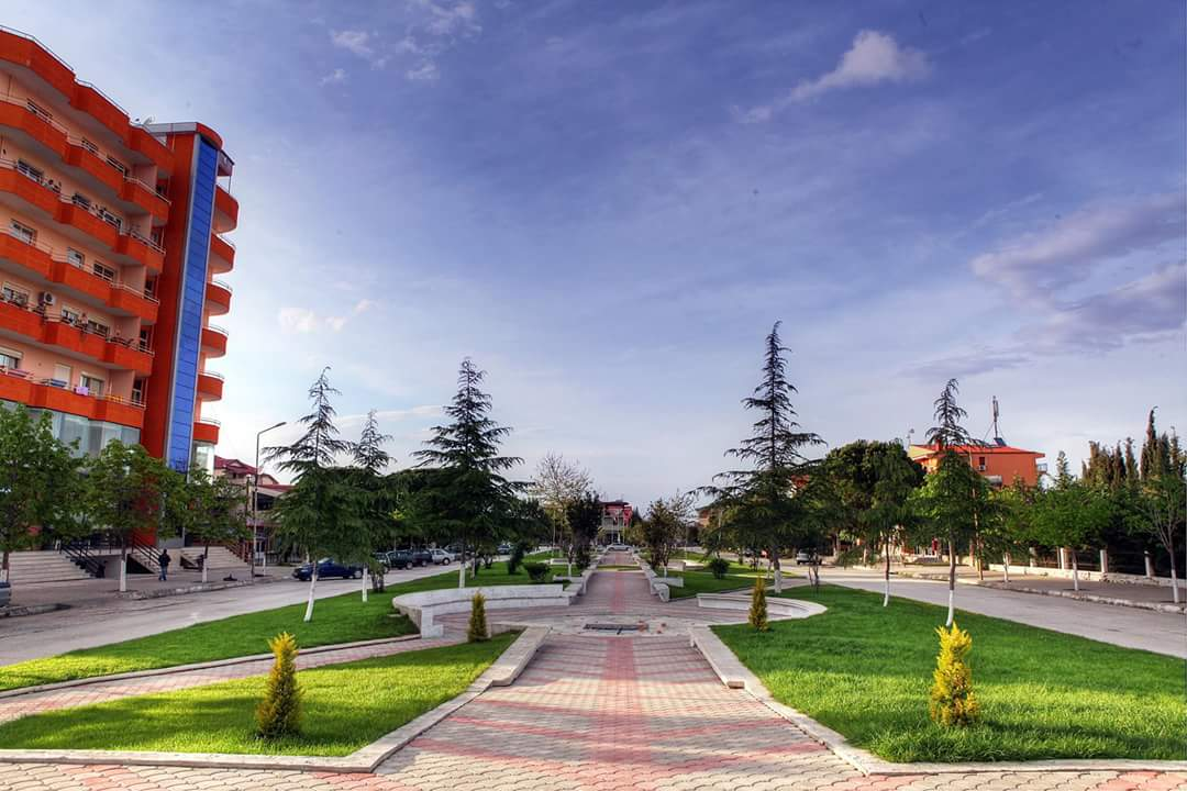 Divjaka Center